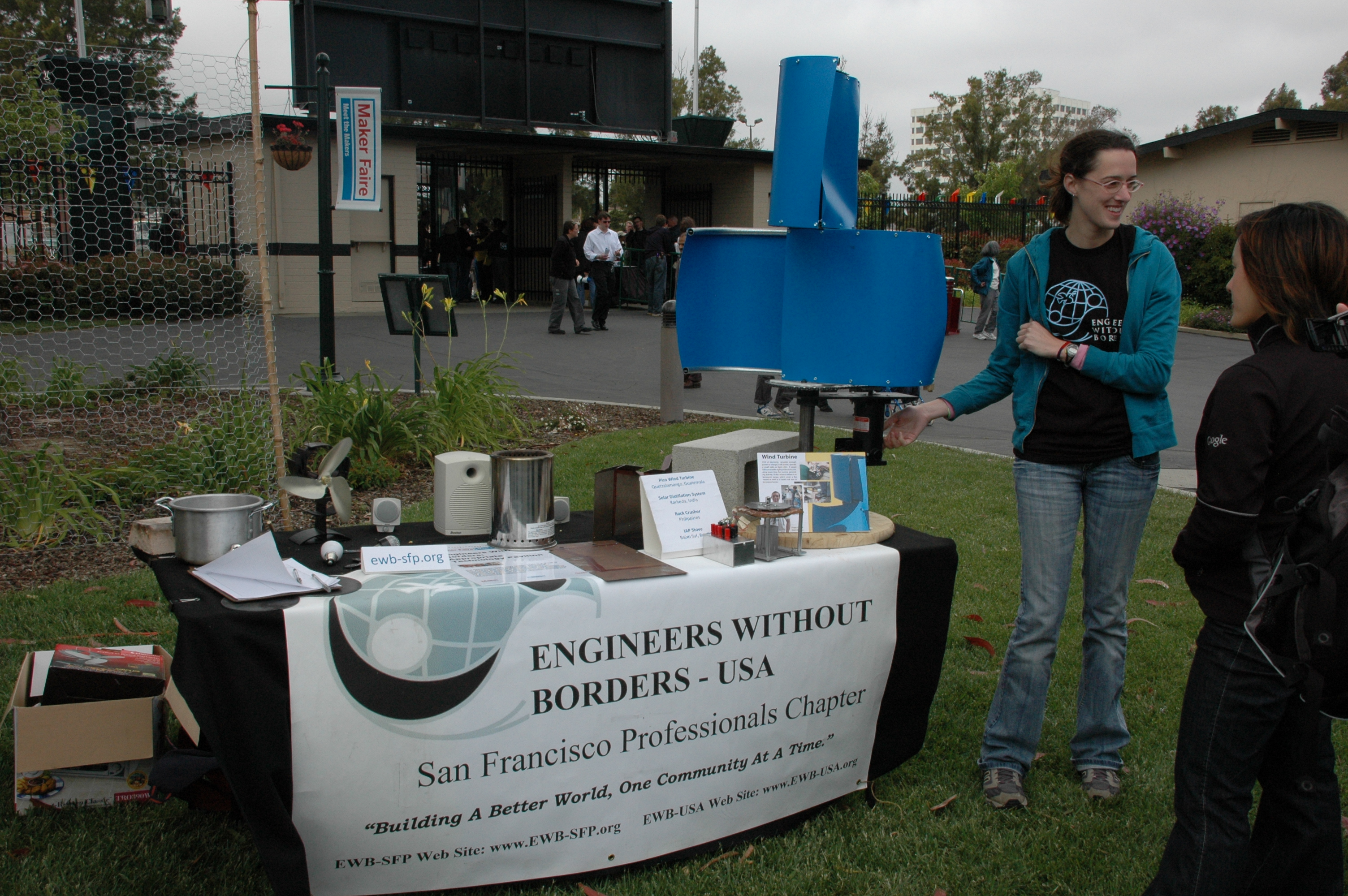 Maker Faire 2008, San Mateo - The Engineers Without Borders (USA) booth. The blue device is a wind turbine that can be made from basic materials.